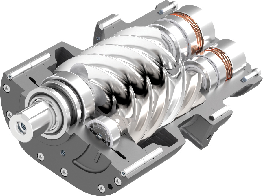 Screw air-end rotors - longitudinal section of the body